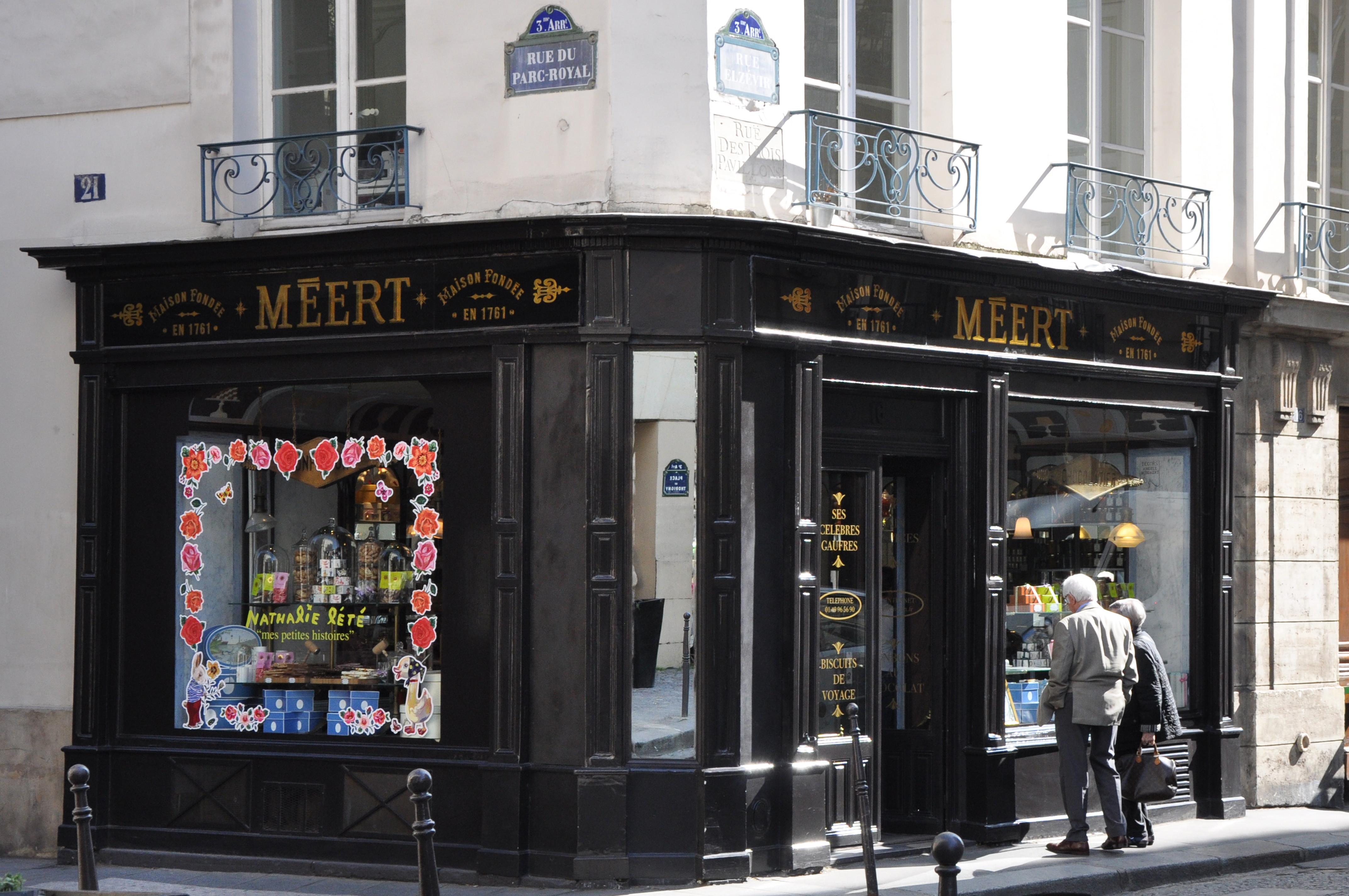 Méert shop, Paris 2015; See old name of street Elzévir "rue des trois pavillons".